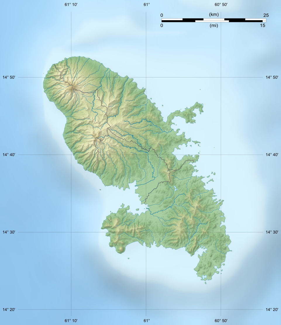 Blank physical map of the region and department of Martinique, France, for geo-location purpose, with arrondissements boundaries.